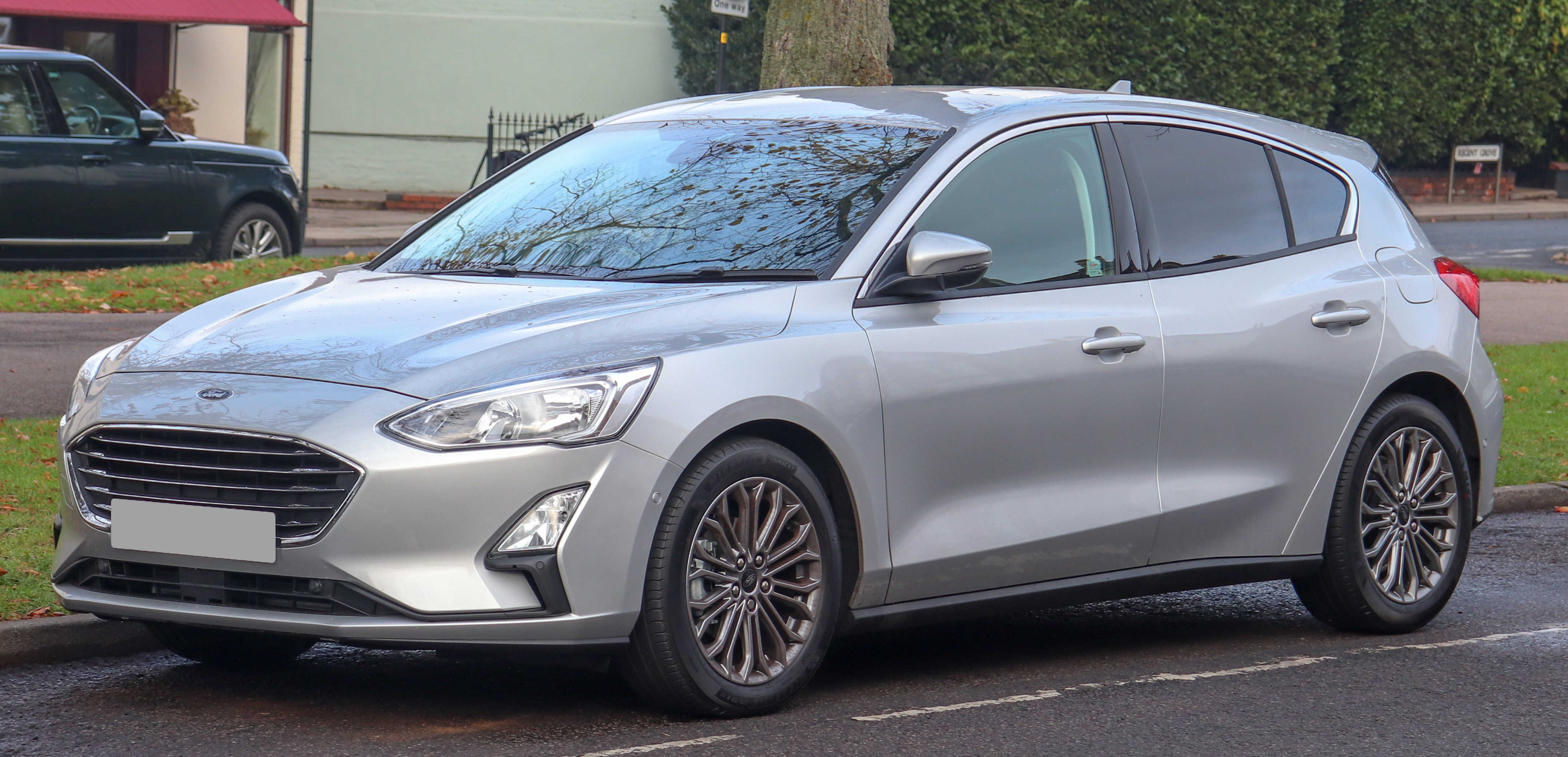 2018 Ford Focus Titanium X 1.0 Taken in Leamington Spa